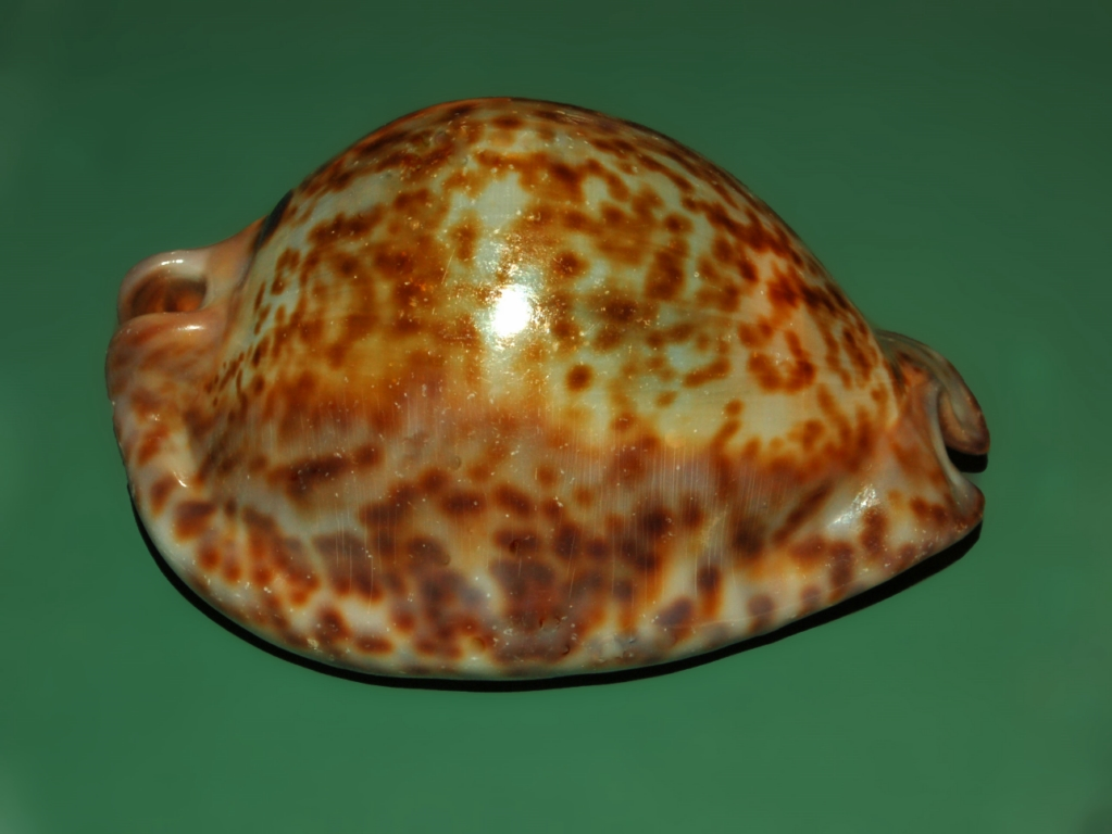 Trona stercoraria - Senegal